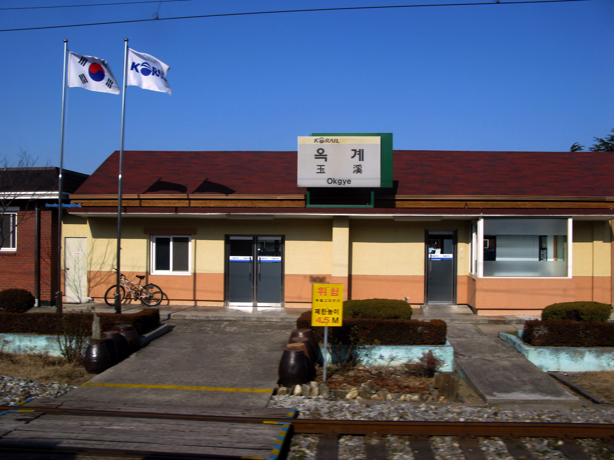 Yeongdong Line Okgye Station